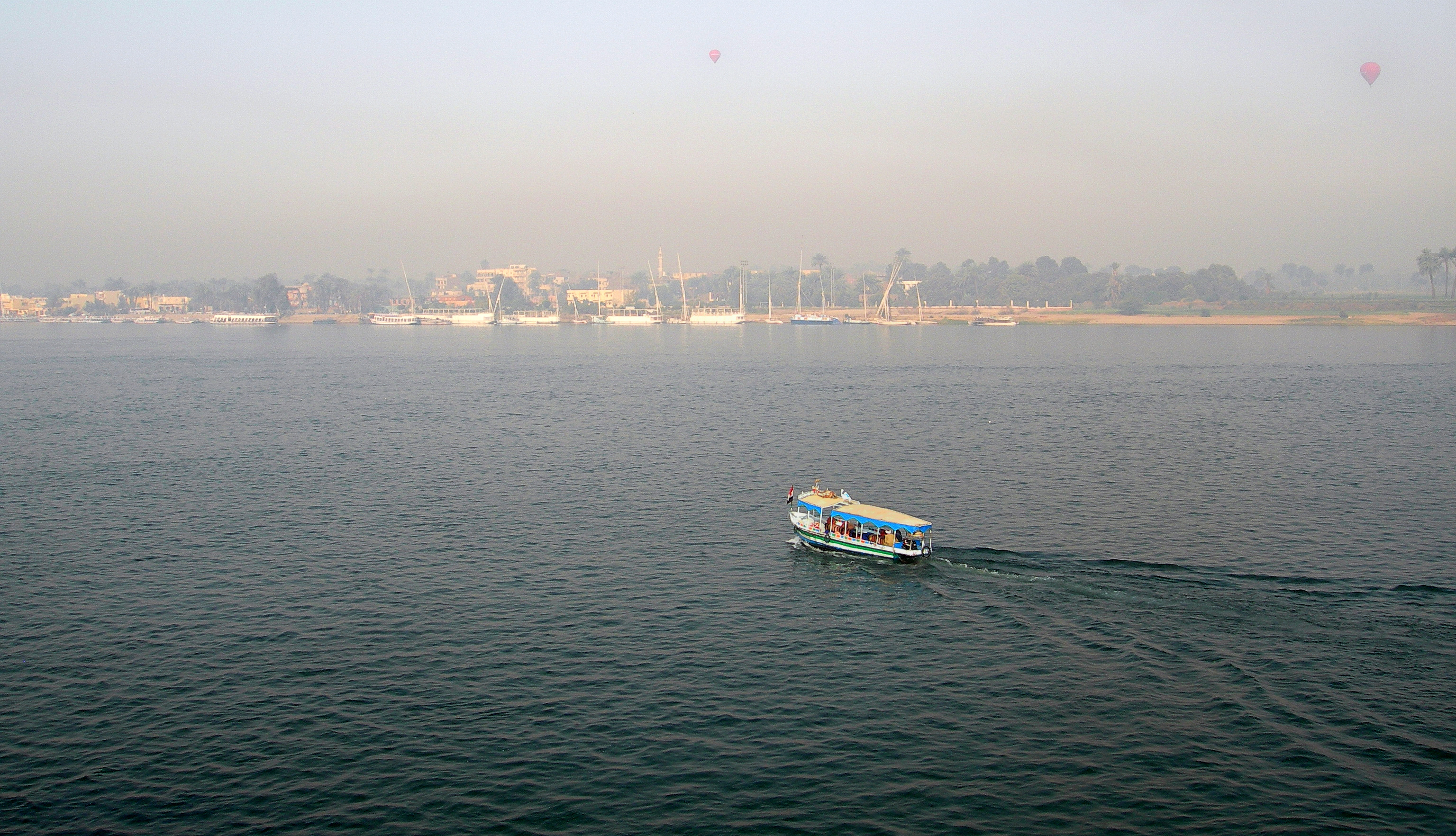 Nile near Luxor, morning. Egypt